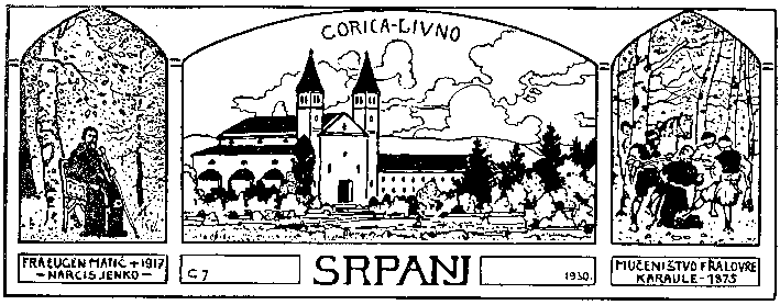 Croatian Catholic calendar in Bosnia and Herzegovina, 1930. Gorica near Livno